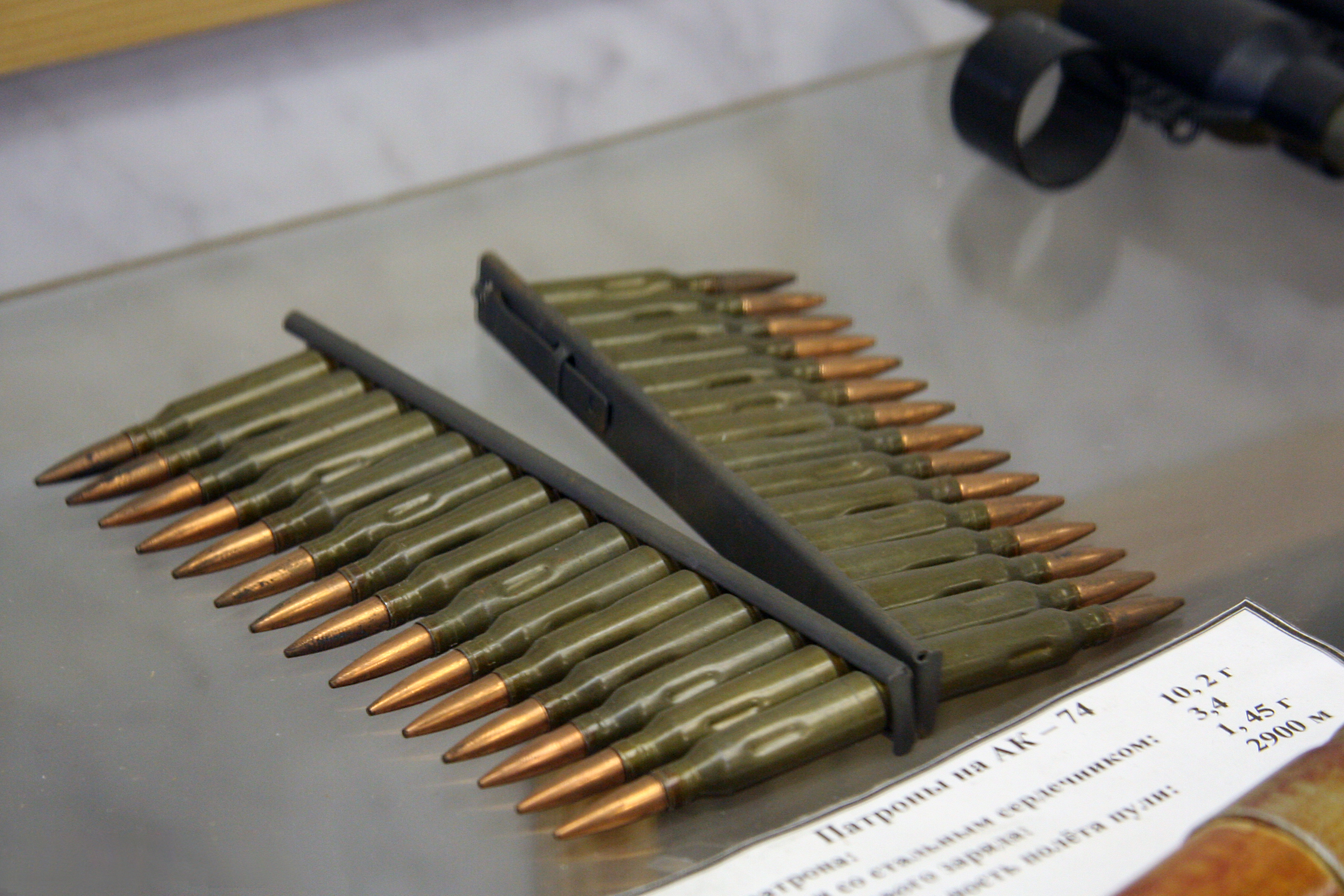 5,45 cartridge